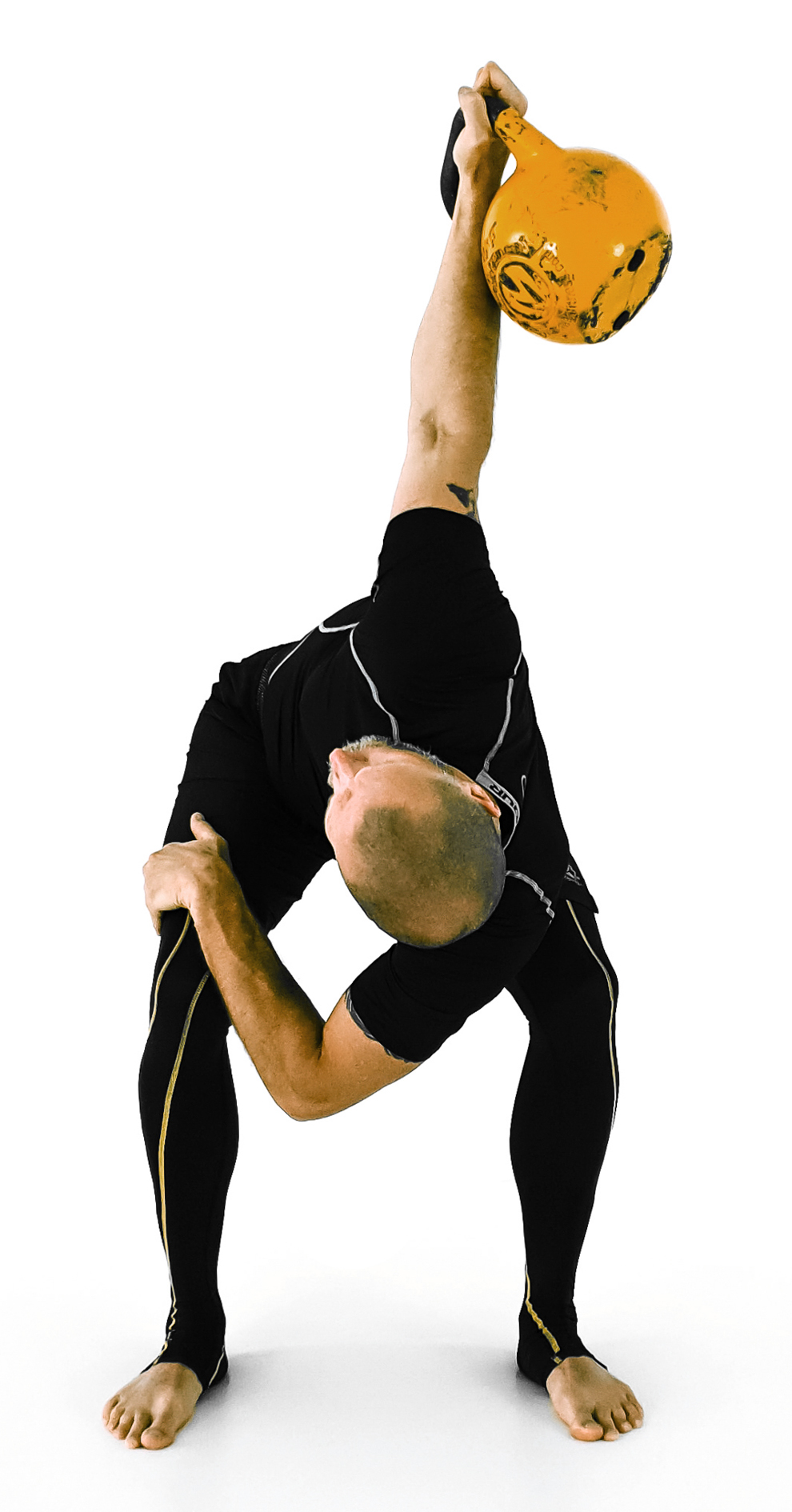 A photo of the kettlebell bent press released from the book Kettlebell Exercise Encyclopedia by Taco Fleur and published by Cavemantraining.